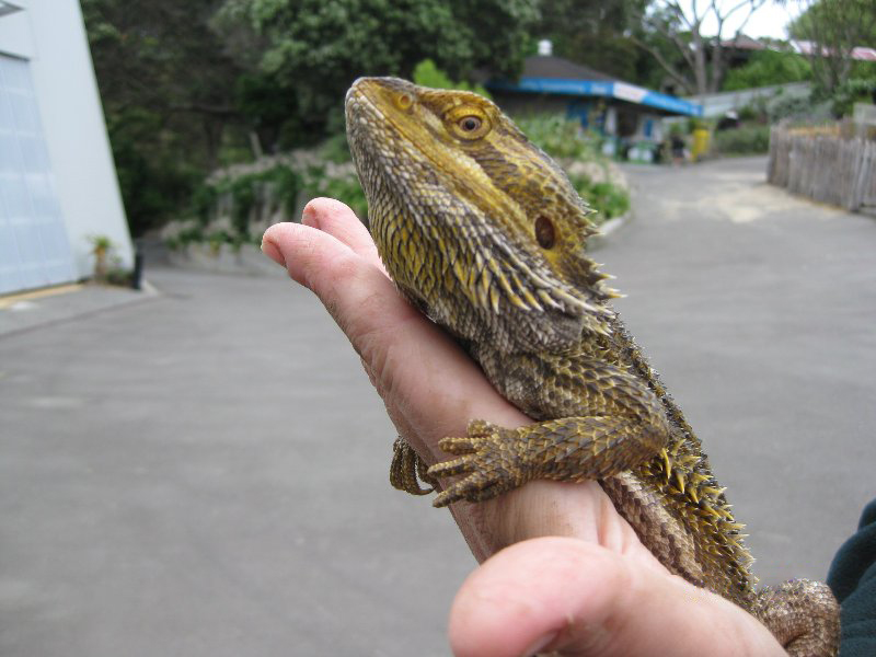 One of Wellington Zoo's contact animals, a bearded dragon.